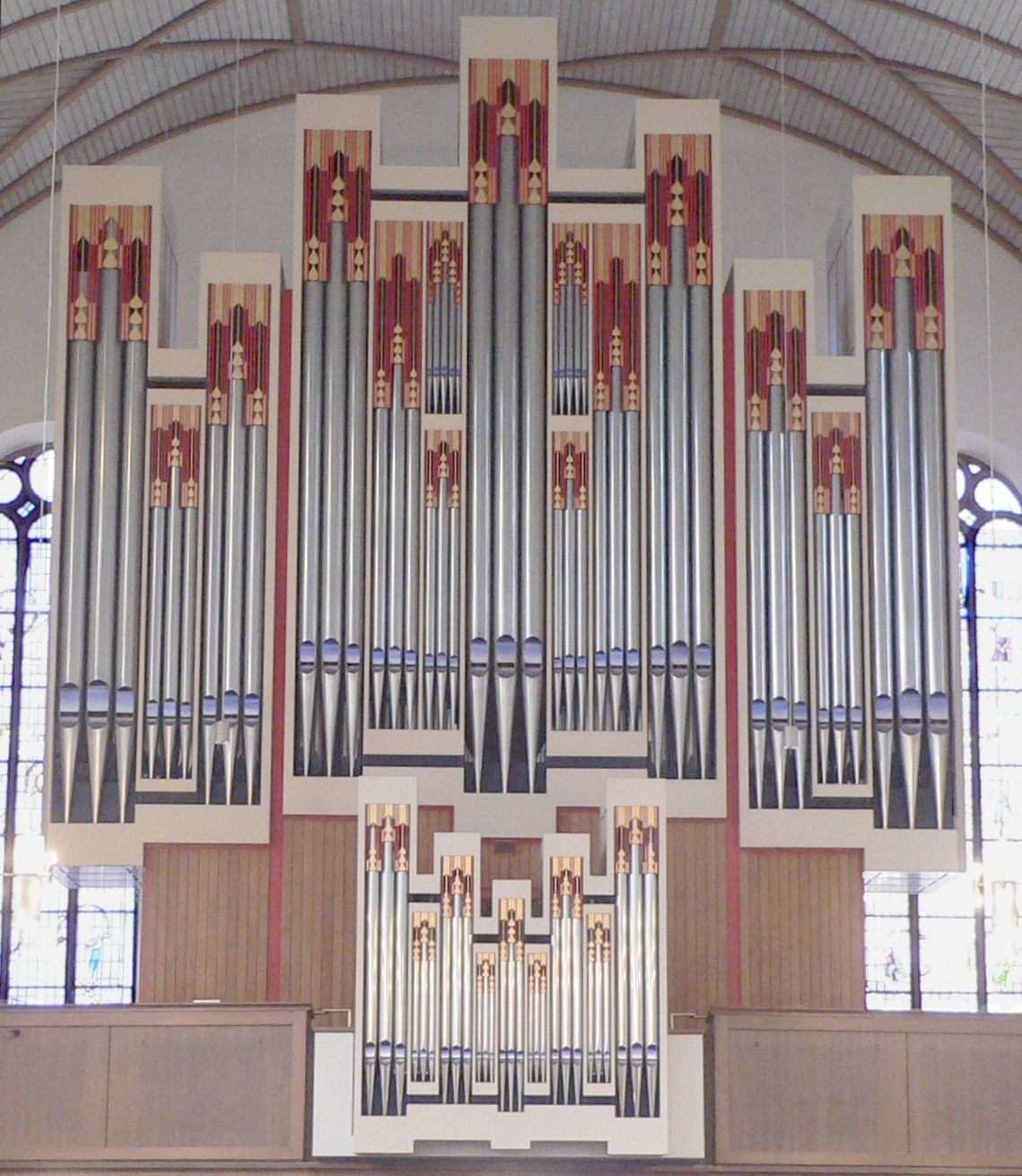 Prospect of the Organ in Katharinenkirche, Frankfurt am Main, Germany Own photography